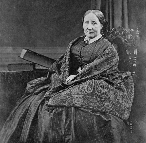 Elizabeth Gaskell (1810-1865)